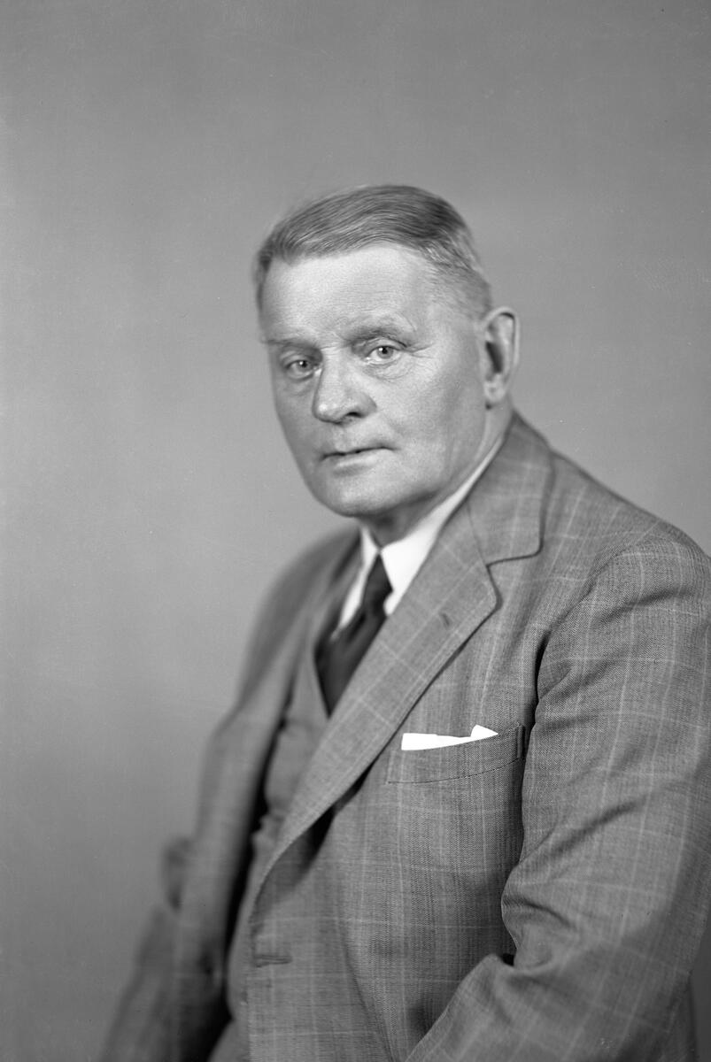 Former Alberta Premier Herbert Greenfield